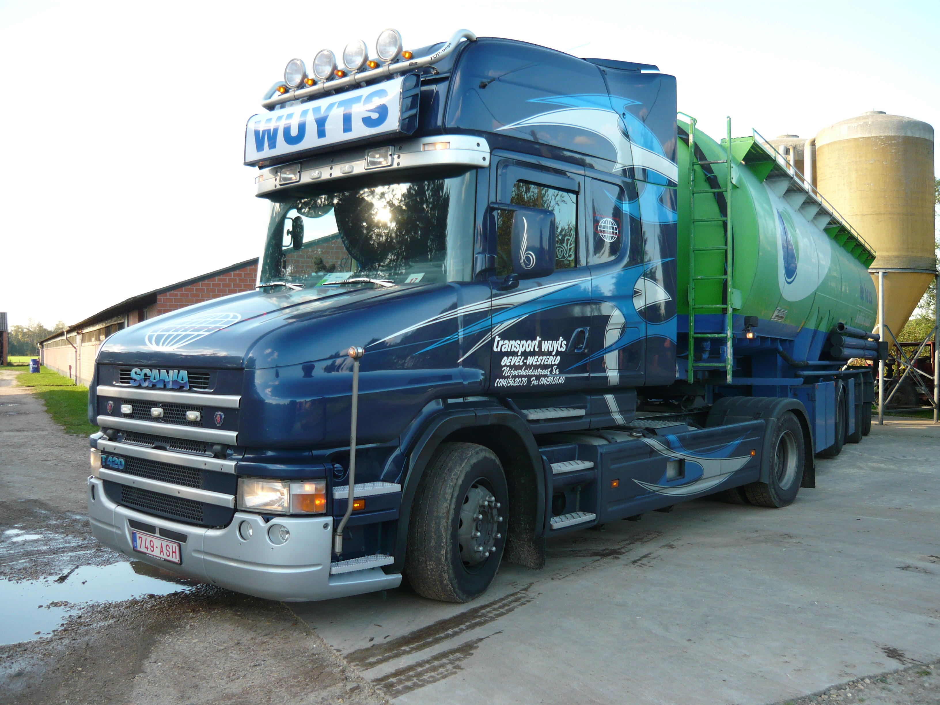 Scania T420 truck.